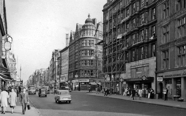 Bond Street Station entrance on Oxford Street. Near to Marylebone, Westminster, Great Britain. View eastward on Oxford Street, at James Street/Gilbert Street - New Bond Street is further along. This London Transport Underground Station was only on the Central Line back in 1961. On 1/5/79 the new 'Jubilee' Line was belatedly opened from Baker Street via Bond Street and Green Park to Charing Cross (former Trafalgar Square), Bond Street was greatly enlarged, with a proper circulating area and entrances on both sides of Oxford Street.